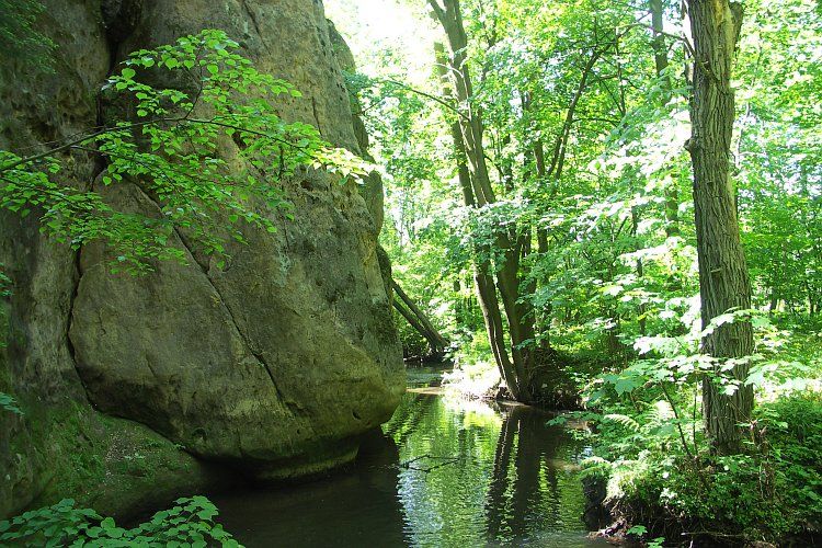 Skála smrti, Lusatian Mountains, Czech Republic